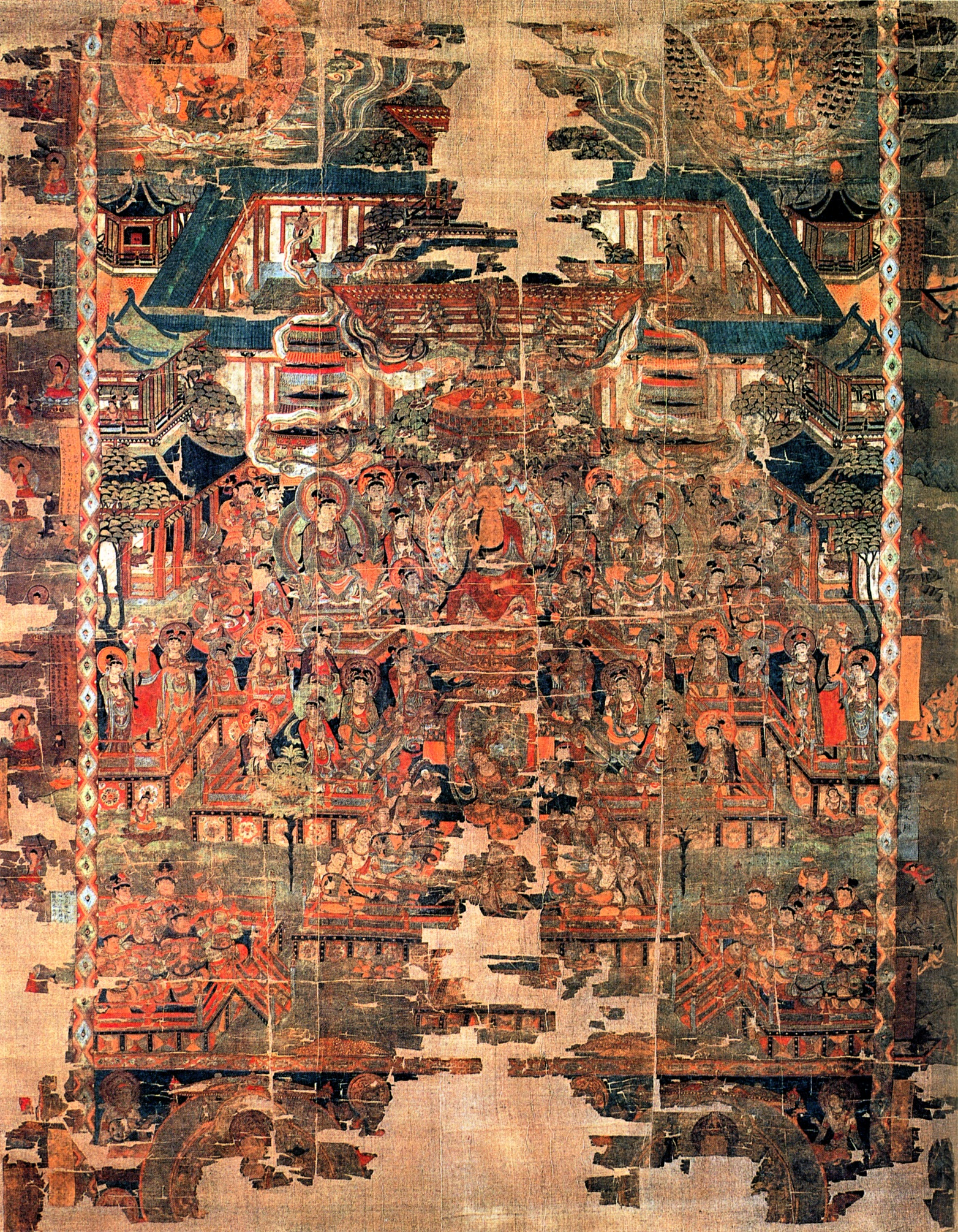 Paradise of Bhaishajyaguru, color on silk, 206 x 167 cm. The image was discovered at the Mogao Caves near Dun Huang in the "1000 Buddha cave". Bhaishajyaguru (Buddha of Healing) is seated in the center of the image. Bodhisattvas are dancing and playing music in front of him. Located at the British Museum Department of Asia.